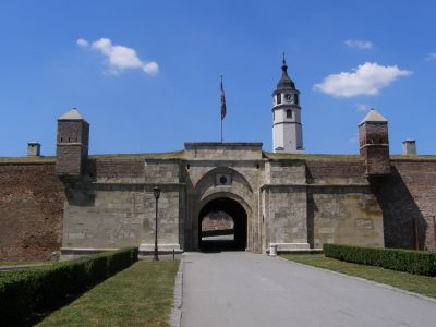 The Kalemegdan fortress in Belgrade (Serbia)